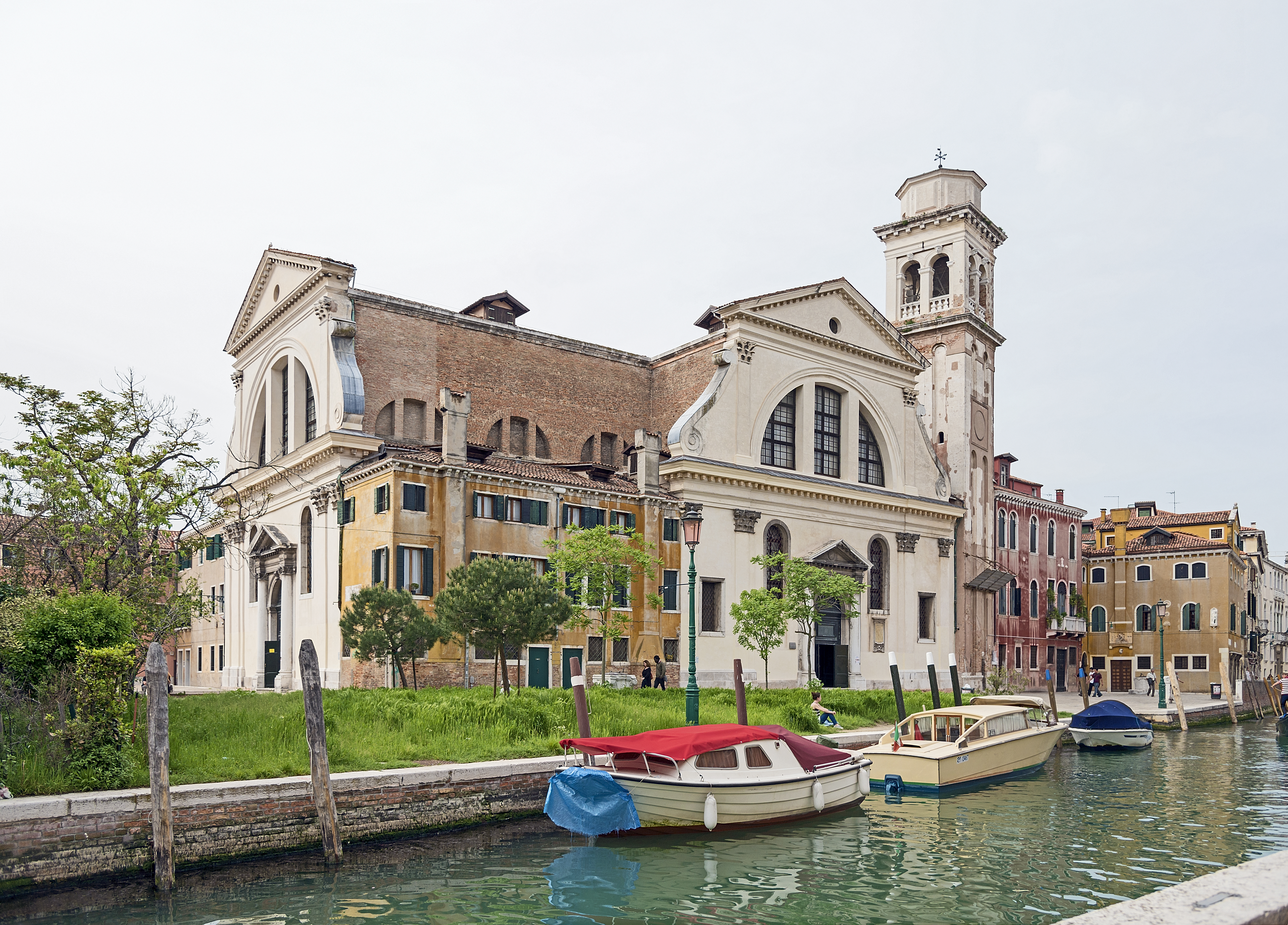 San Trovaso Venice. Facade on “Rio San Trovaso”.